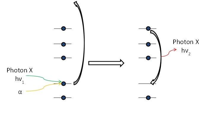 Principe de fonctionnement de la fluorescence X, consistant en l’émission d’un photon X (flèche rouge) après éjection d’un électron d’une couche électronique interne de l’atome induite par particule alpha (flèche jaune) ou rayonnement X (flèche verte).